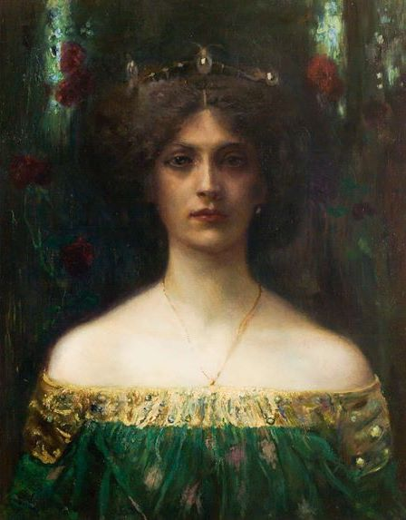 The Kings daughter